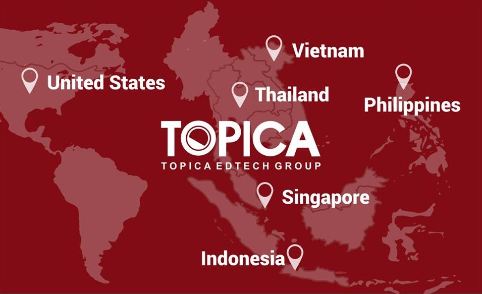 Ảnh logo Topica